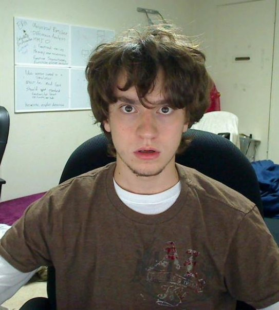 George Hotz, American hacker who publicized the collaboration leading to a procedure for unlocking the Apple iPhone